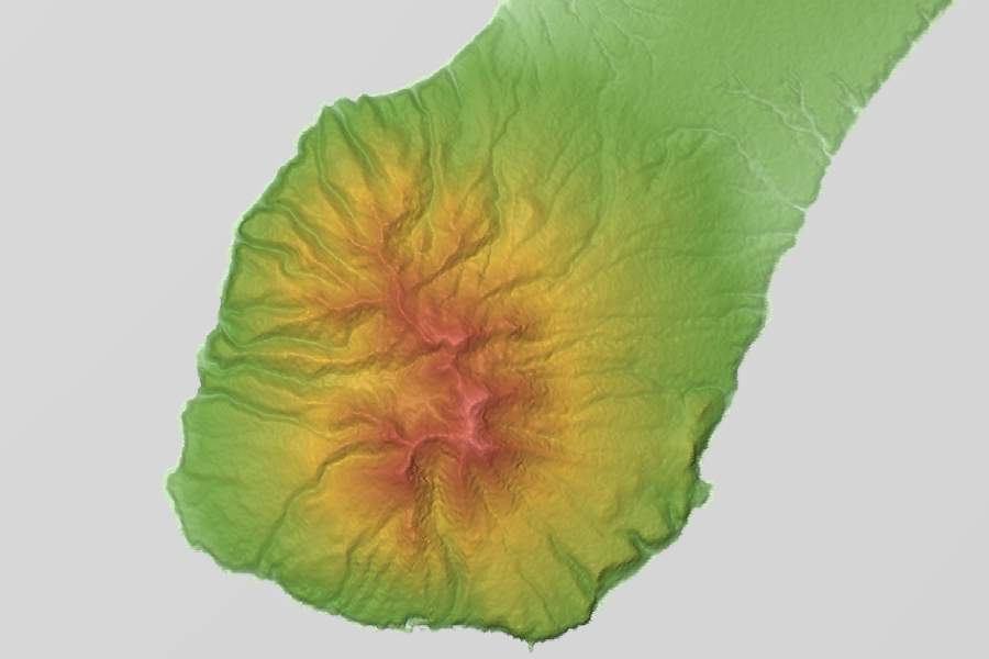 Mount Berutarube in Iturup, Kuril Islands, Russia.